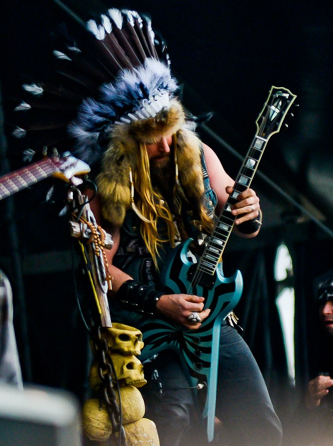 Zakk Wylde of Black Label Society performing live at Hellfest 2011.